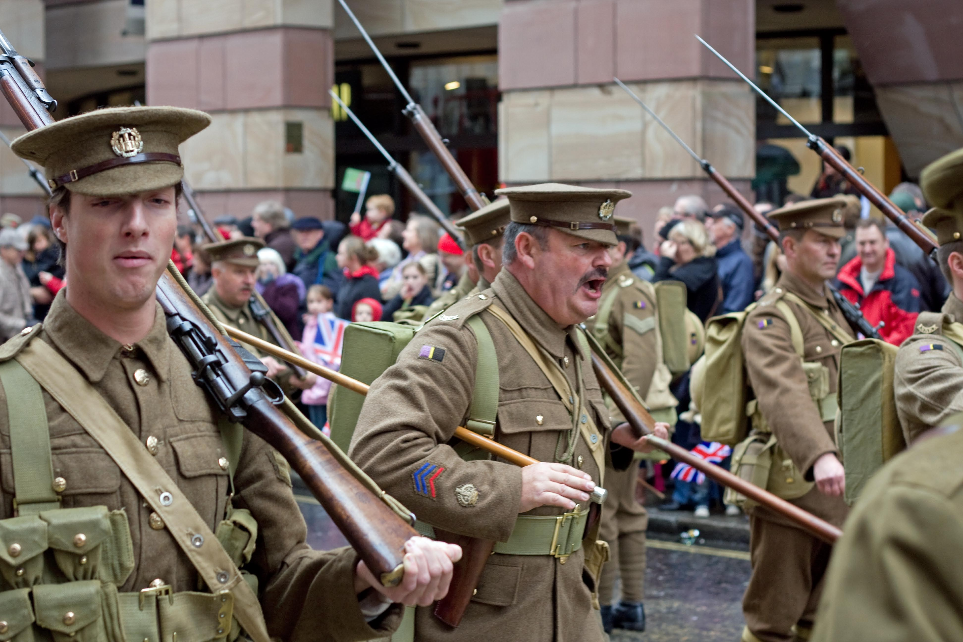 Lord Mayor's Show 2008